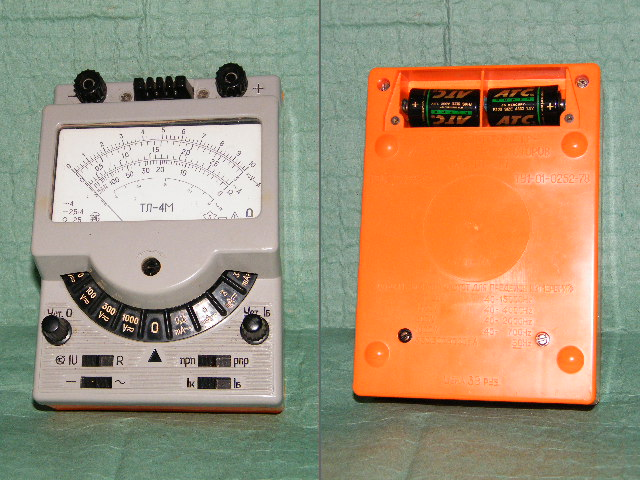 TL-4 multimeter with two R10 cells. USSR, 1989